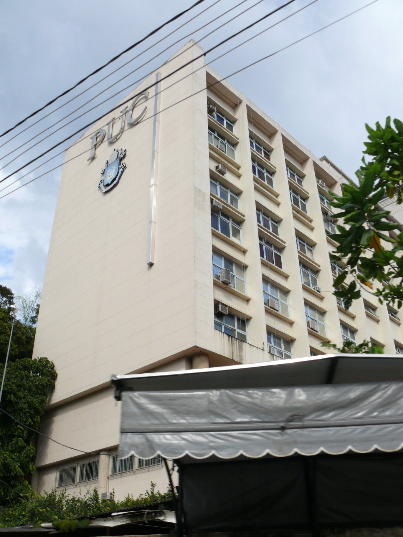 The Pontifical Catholic University of Rio de Janeiro (Brazil).